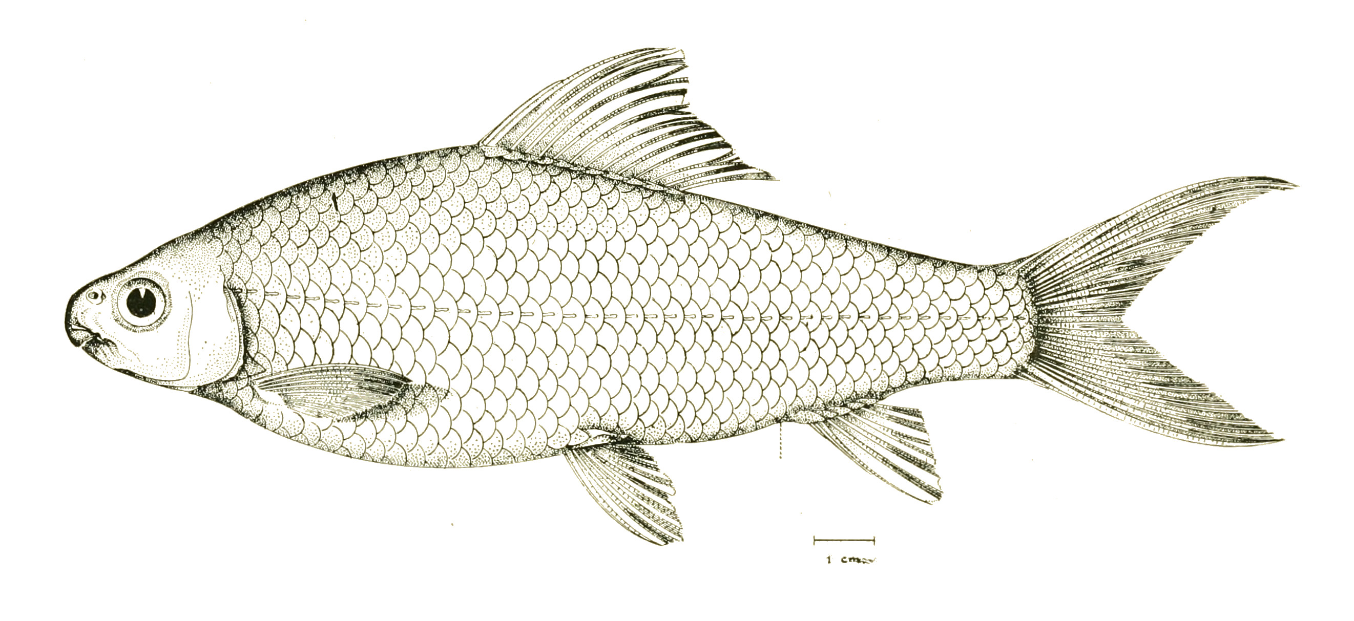 Title: Annals of the Carnegie Museum Year: 1919 (1910s) Authors: Carnegie Museum; Carnegie Museum of Natural History Subjects: Carnegie Museum; Carnegie Museum of Natural History; Natural history Publisher: [Pittsburgh : Published by authority of the Board of Trustees of the Carnegie Institute] Text Appearing Before Image: ' Text Appearing After Image: '